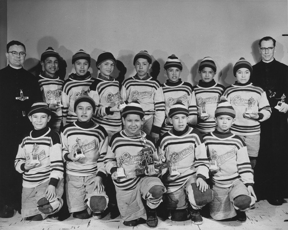 Twelve children of Native American origin in hockey outfits are surrounded by two priests who work at a residential school they attend. Indian children were often forced into these schools up to the 1970s in Canada.